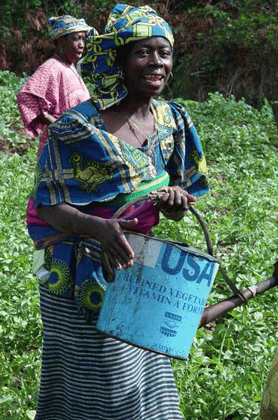 Pita, Guinea